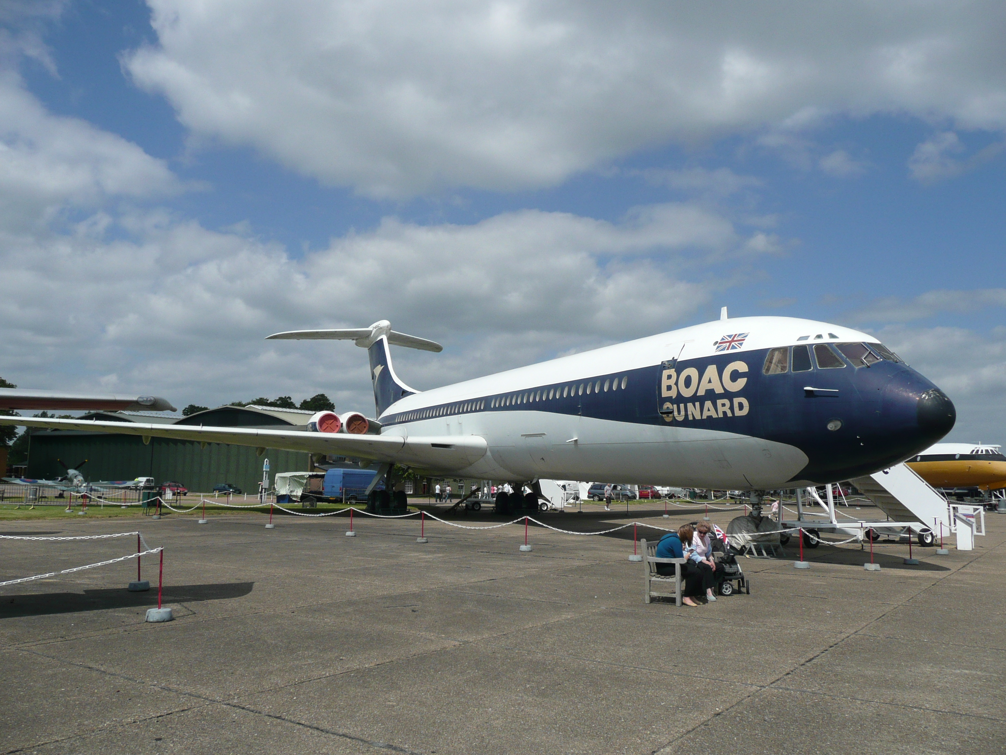 Vickers VC10, Imperial War Museum Duxford in Duxford.